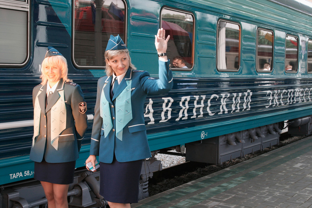 “New Slavic Express train”. New Slavic Express train for Moscow-Minsk service.